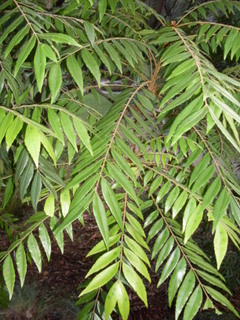 Jagera pseudorhus - leaves, park in Chatswood